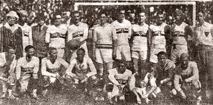 squad of São Paulo Futebol Clube in 1931.